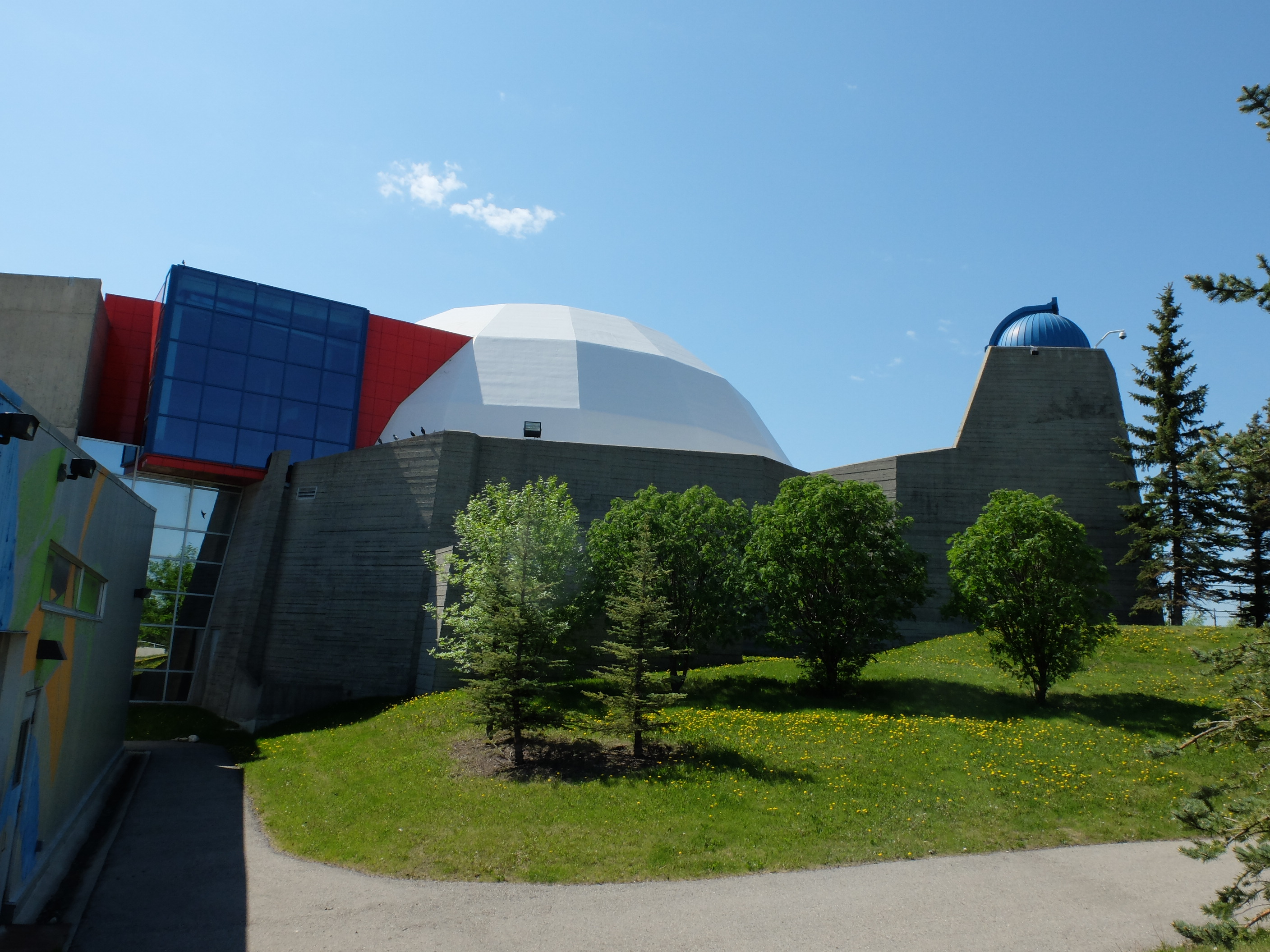 View of celestial theatre/ from parking lot. May 2017 photo: Jacob Bey